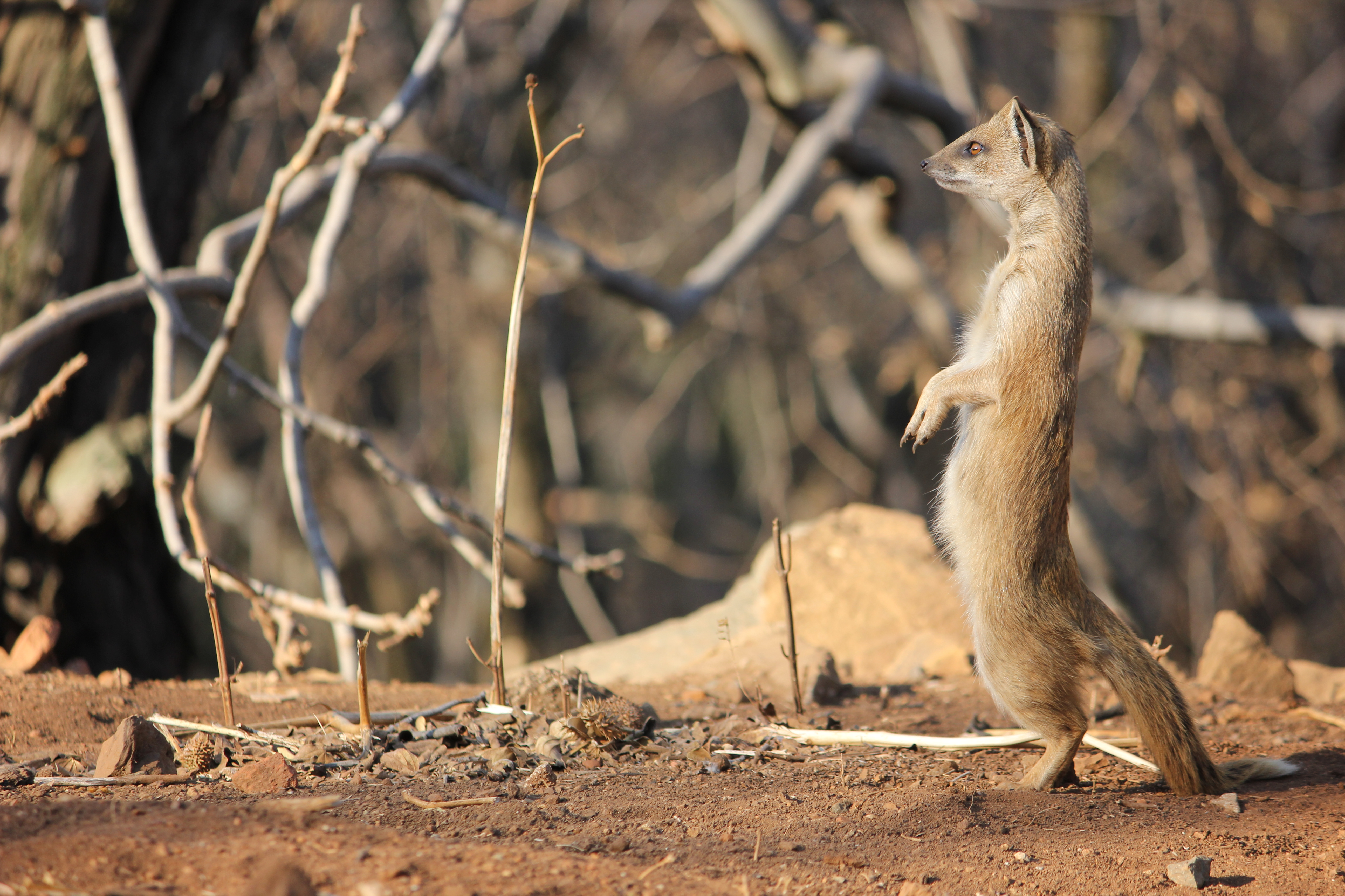 Yellow Mongoose foraging, photographed at Klipriviersberg Nature Reserve, Johannesburg.